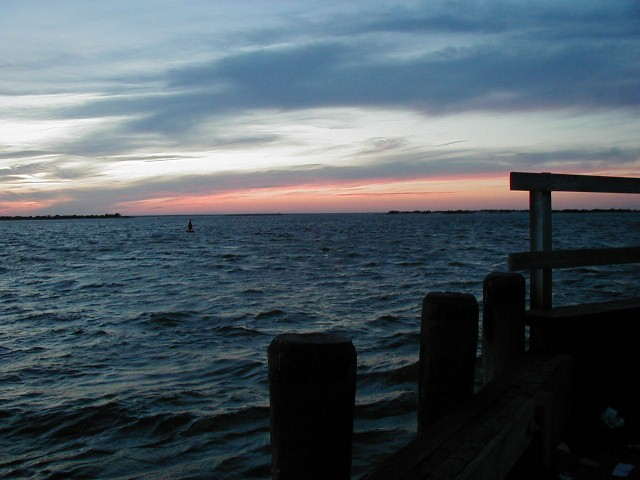 Looking over Barnegat Bay from Barnegat Light, Long Beach Island, New Jersey.